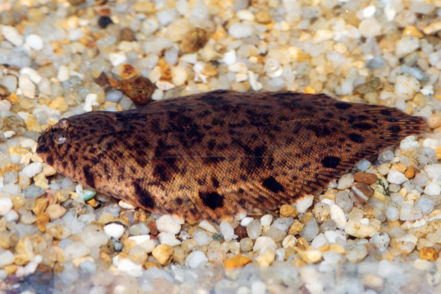 Brachirus orientalis